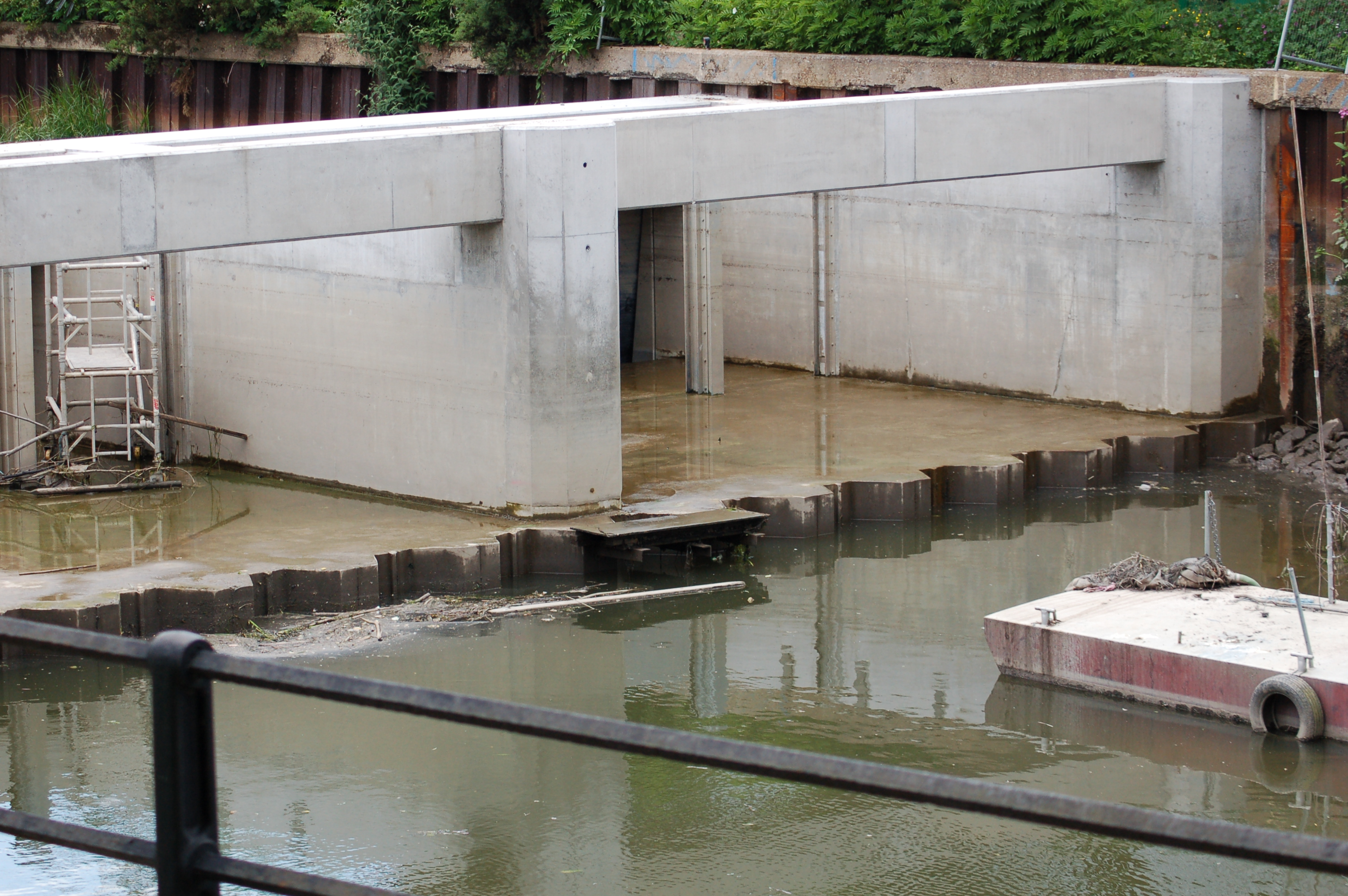 Use freely, please attribute - K B Thompson